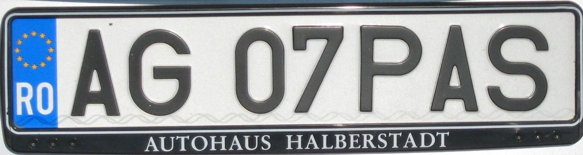 A new Romanian licence plate from Arges.